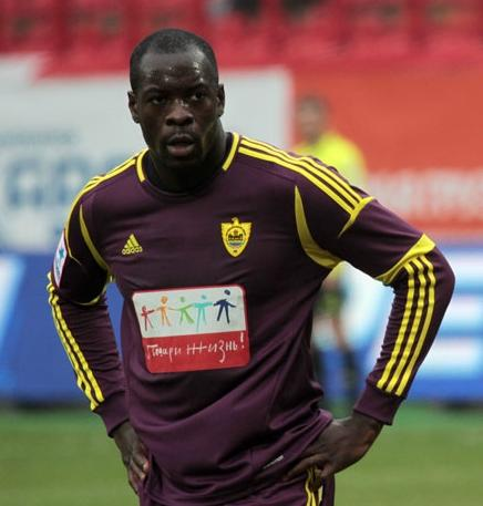 Christopher Samba with FC Anzhi Makhachkala.